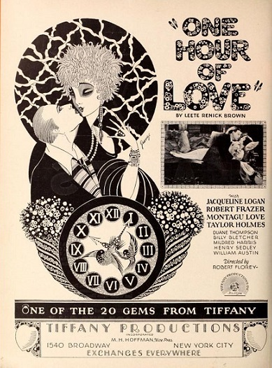 Poster del film One Hour of Love